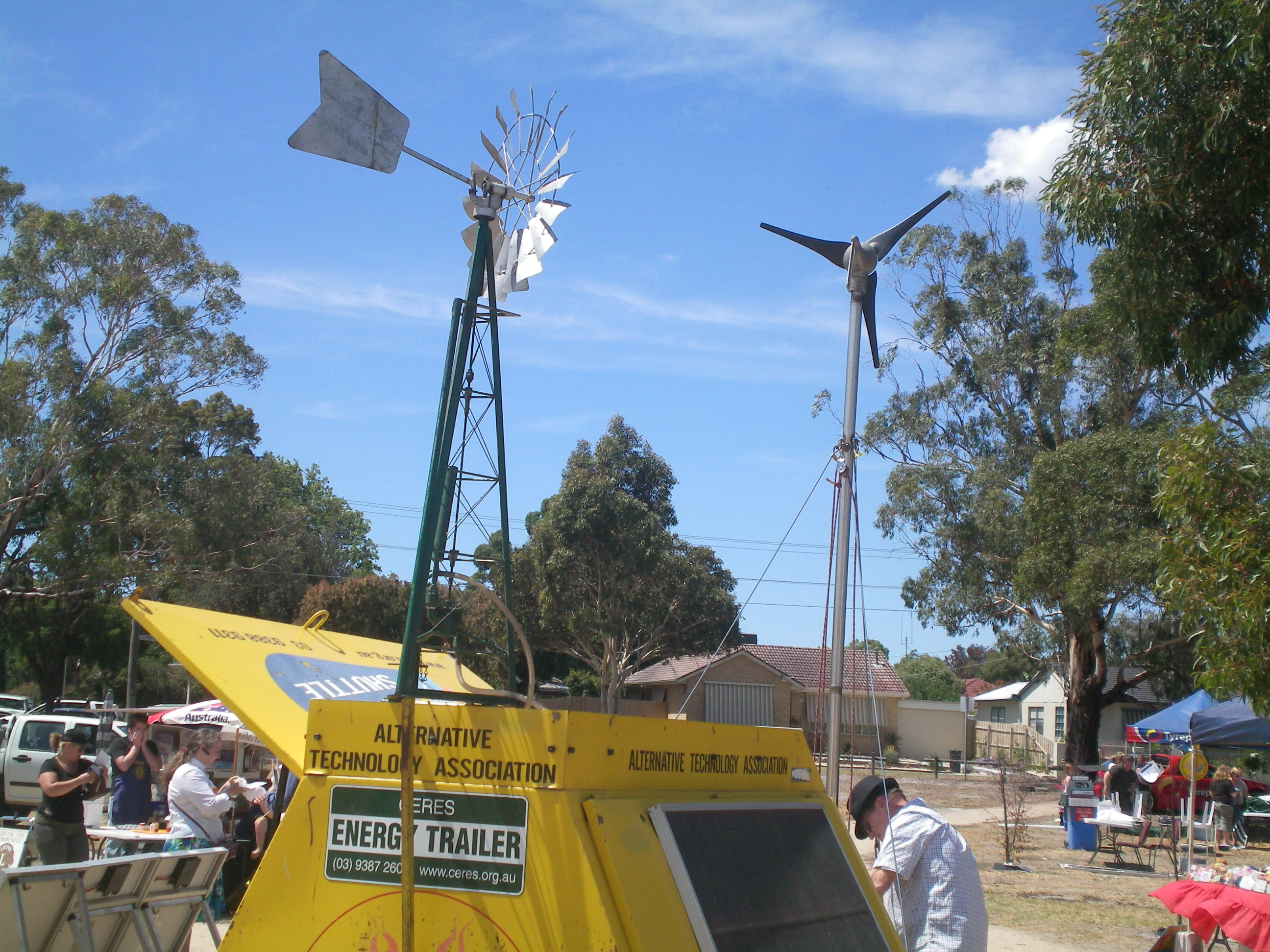 Pending...